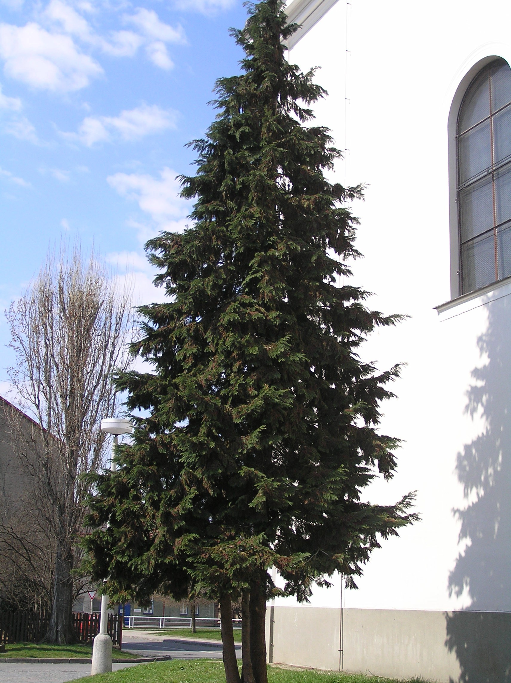 Chamaecyparis lawsoniana, Choceň, Czech Republic, cultivated